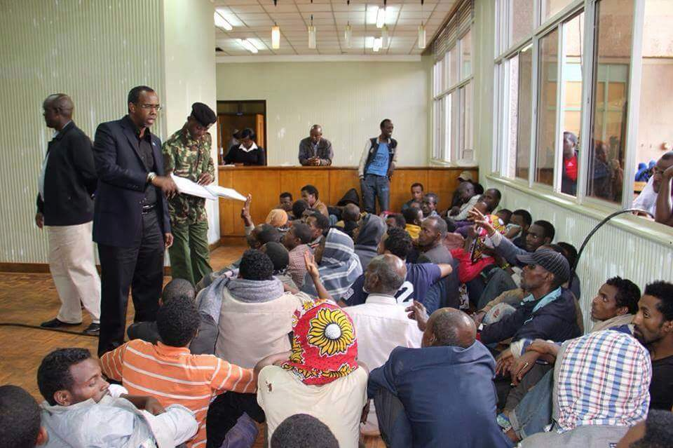 Ambassador Mohamed Ali Nur Americo addressing Somali nationals arrested in Nairobi in mid-2014 by Kenya Police following bomb attacks in the capital